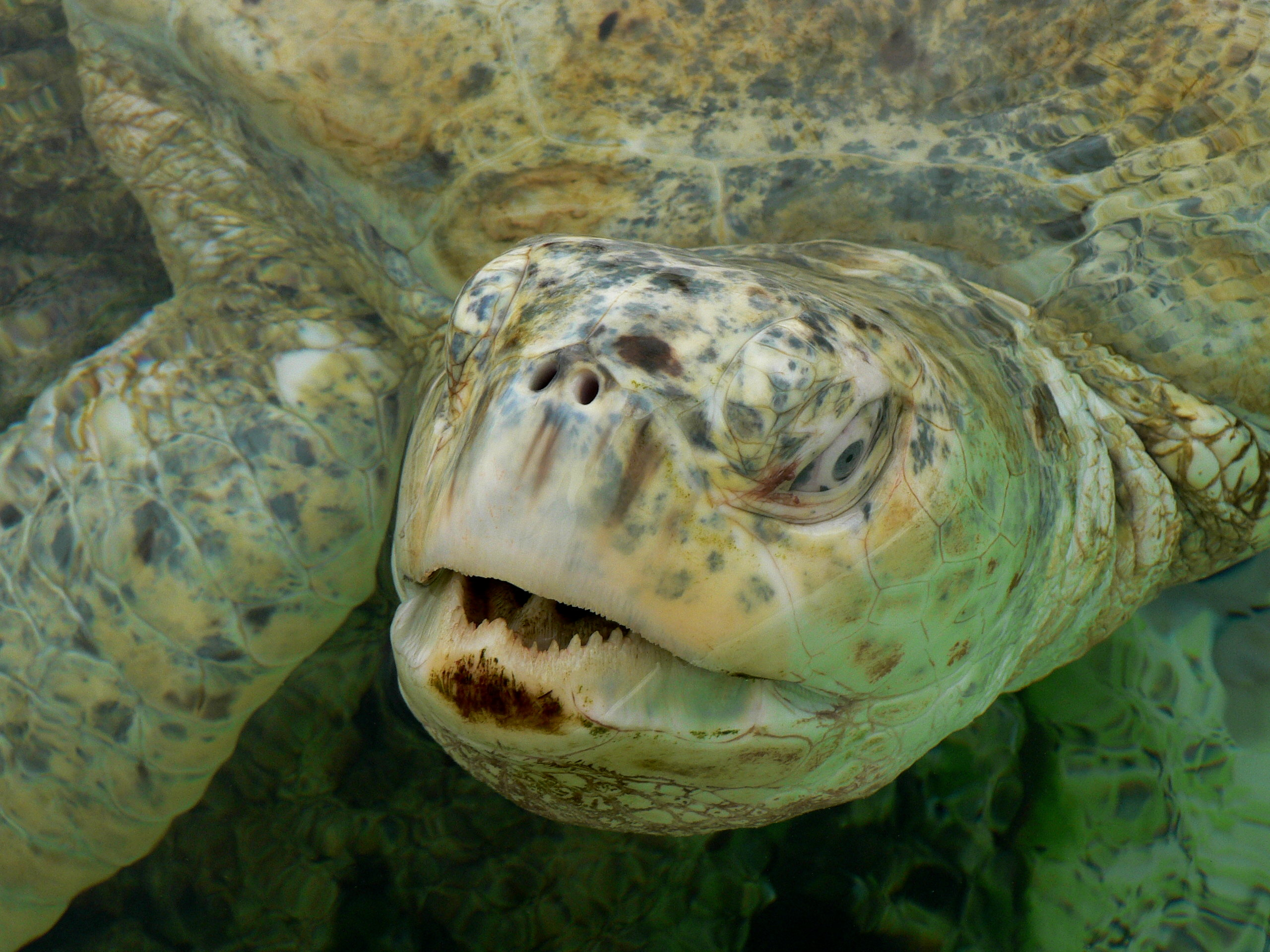 Green turtle (Chelonia mydas), albino; one of the turtles of Kelonia, Reunion Island